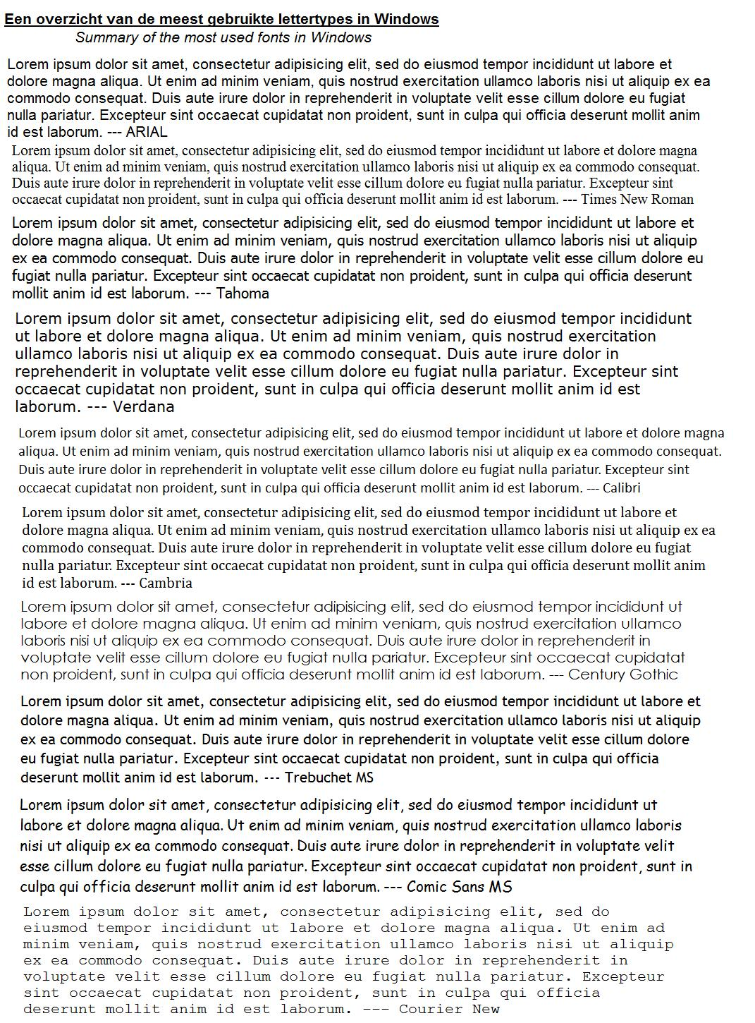 A summary of the most important fonts used in Windows (like: Arial, Times New Roman, Verdana, Calibri etc.)